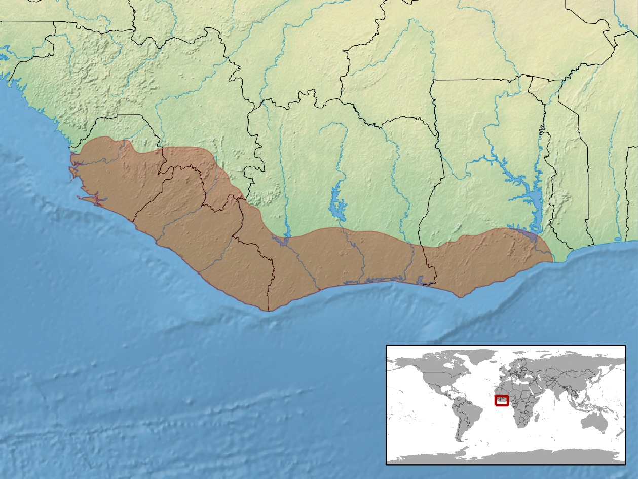 geographic distribution of Dipsadoboa brevirostris (Native: Côte d'Ivoire; Ghana; Guinea; Liberia; Sierra Leone)